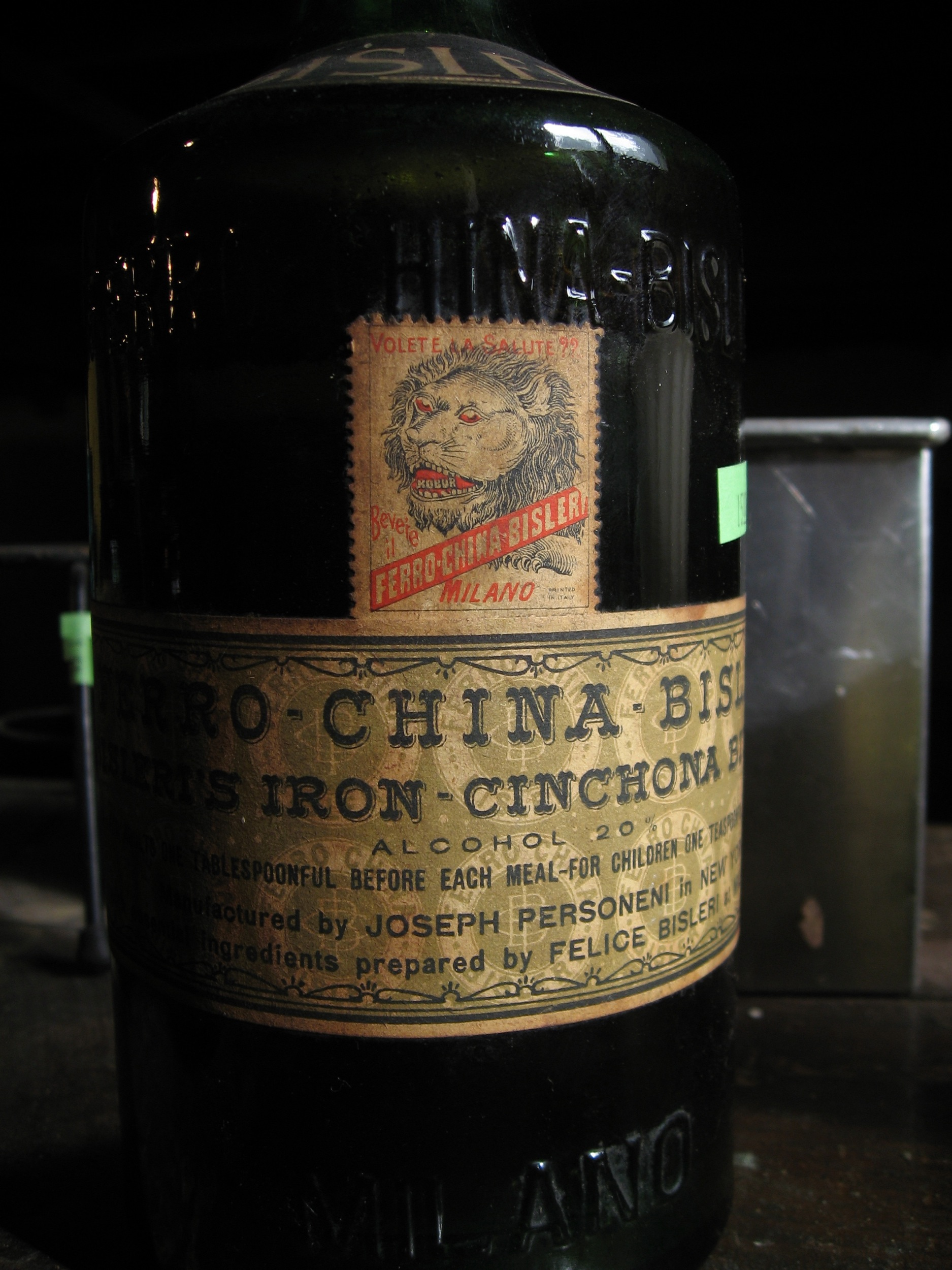 Bisler's Iron Cinchona Bitters - A nasty old bottle of bitters with some very fancy labeling. Photos taken "in situ" at an Estate Sale last November. I was charmed by the "ROEUR" in the lion's mouth. The bottle was purchased and put on a shelf without further investigation. Looking at the bottle again, I think further (better lit) documentation is probably in order. Interestingly, according to the text on the label, it was "Manufactured under the National Prohibition Act". I think that means that the manufacturers managed to classify this (likely very alcoholic) liquid as medicine. There is dosage information on the label reading: "Dose: For Adults One Tablespoonful - For Children One Teaspoonful In A Little Water"